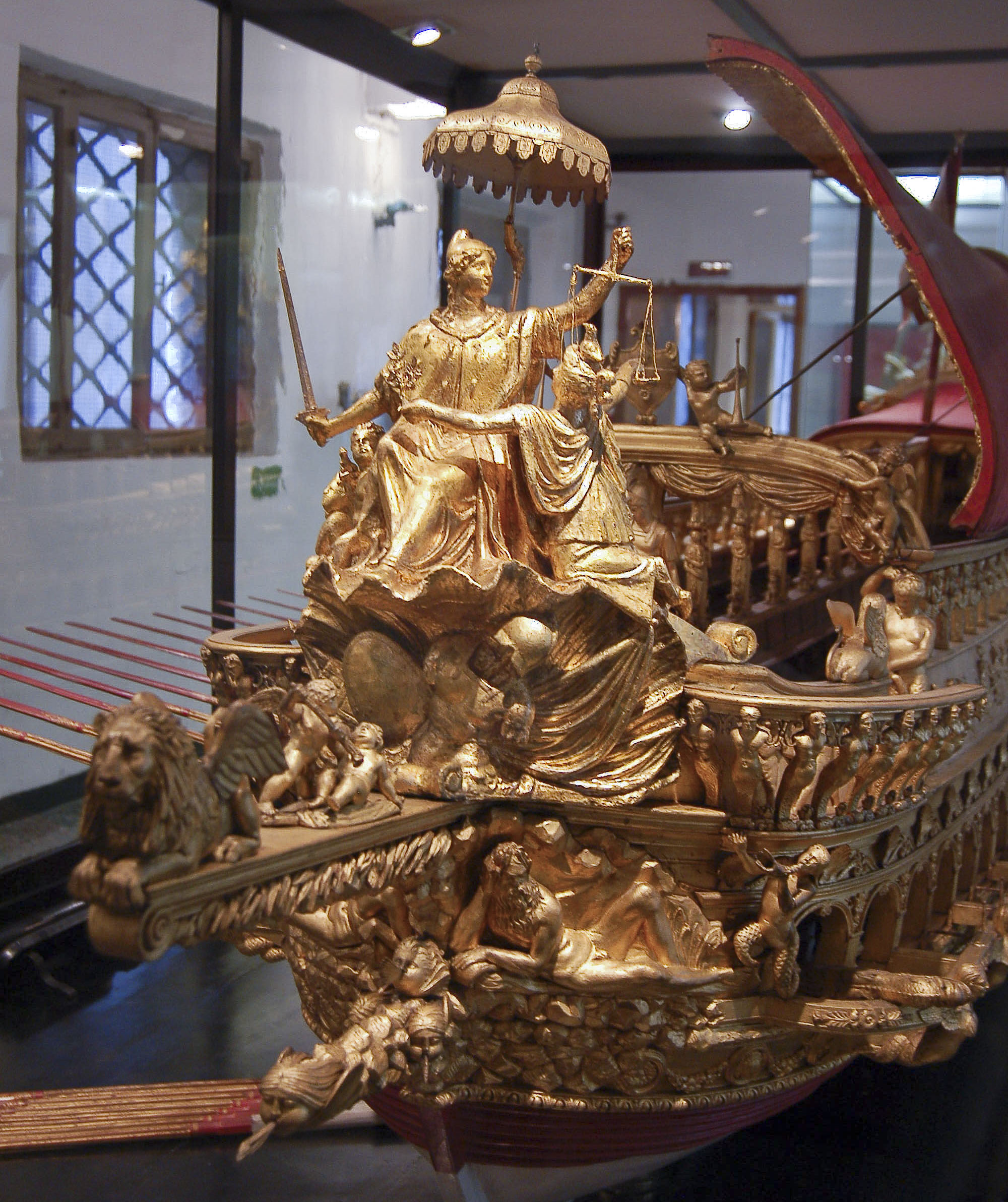 This is the figure head on a model of the Venetian state galley Bucintoro. It is displayed the Venetian naval history museum, Museo Storico Navale.